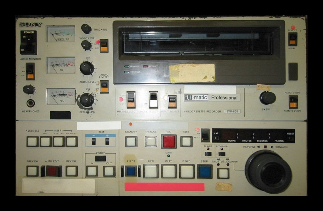 SONY BVU-800 U-matic Video Tape Recorder Sony Co., Ltd. Photo by Mangos